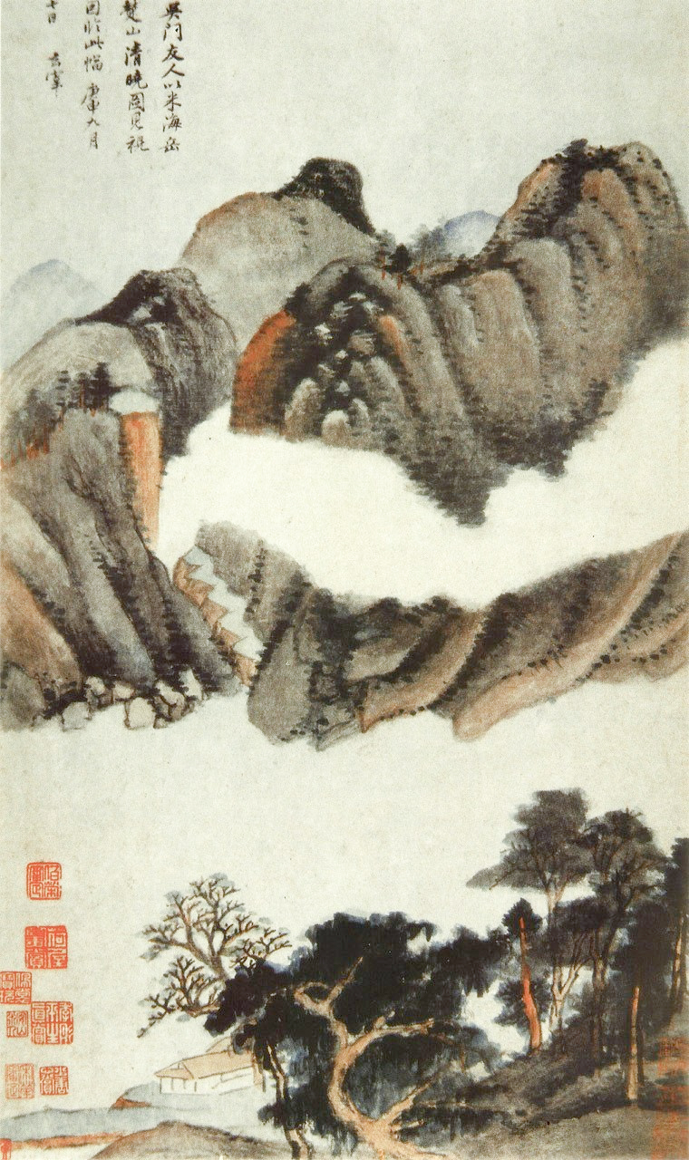 Dong_Qichang._Eight_Scenes_in_Autumn.3._Album_leaf._1620._Shanghai_Museum